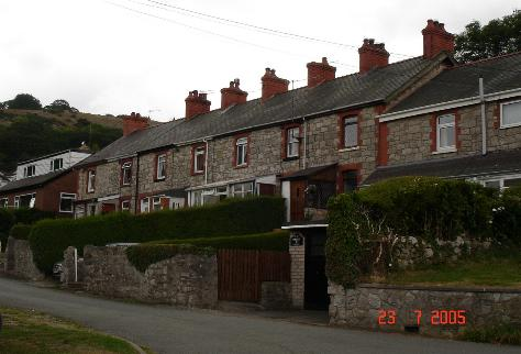 Stone cottages at Rhyd y Foel. A row of stone cottages in the village of Rhyd y Foel near Abergele